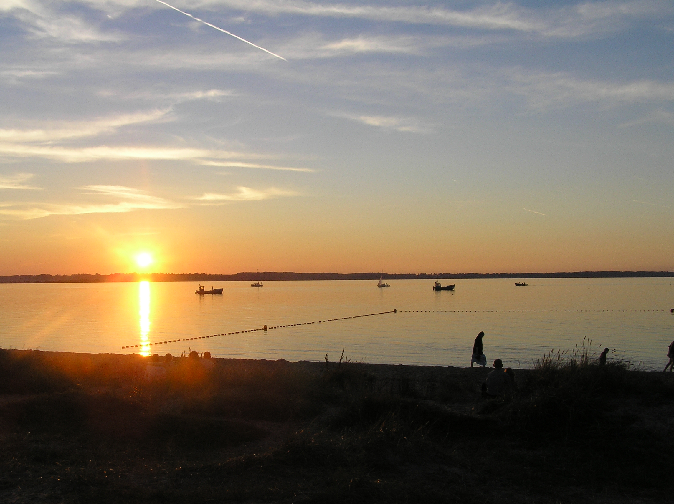 The Bay of Puck in Rewa.